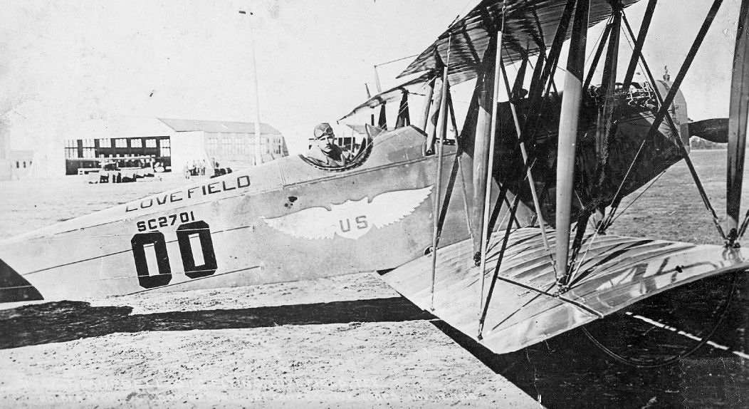 Curtiss JN-4D and pilot at Love Field, Texas, 1918